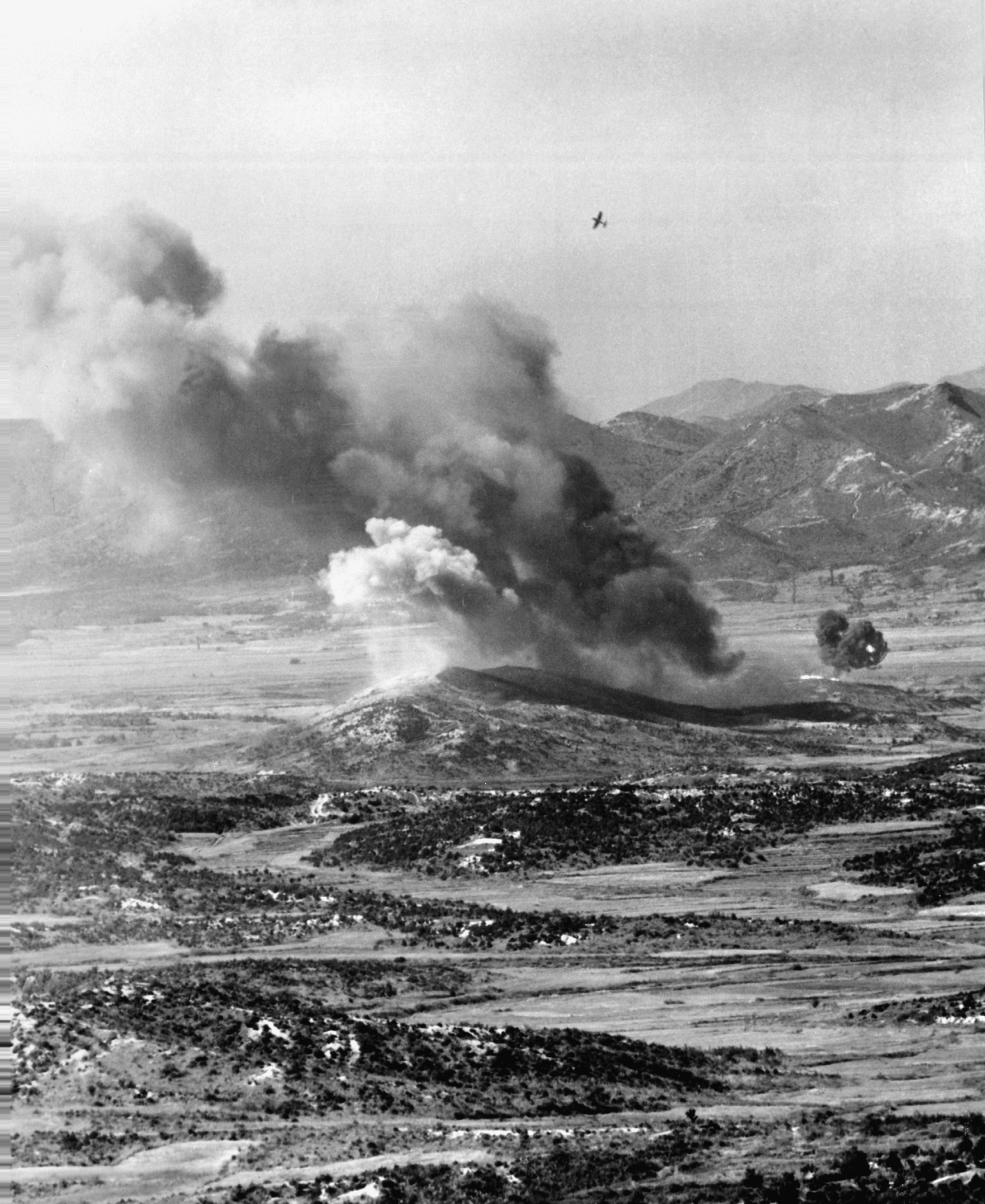 Planes from the U.S. 1st Marine Air Wing assault positions on a hill taken by the enemy from Korean Marines on Korea's western front in 1 October 1952. Note the Vought F4U-4 Corsair pulling up from a bombing run.